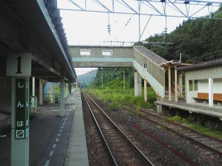 Jimba Station